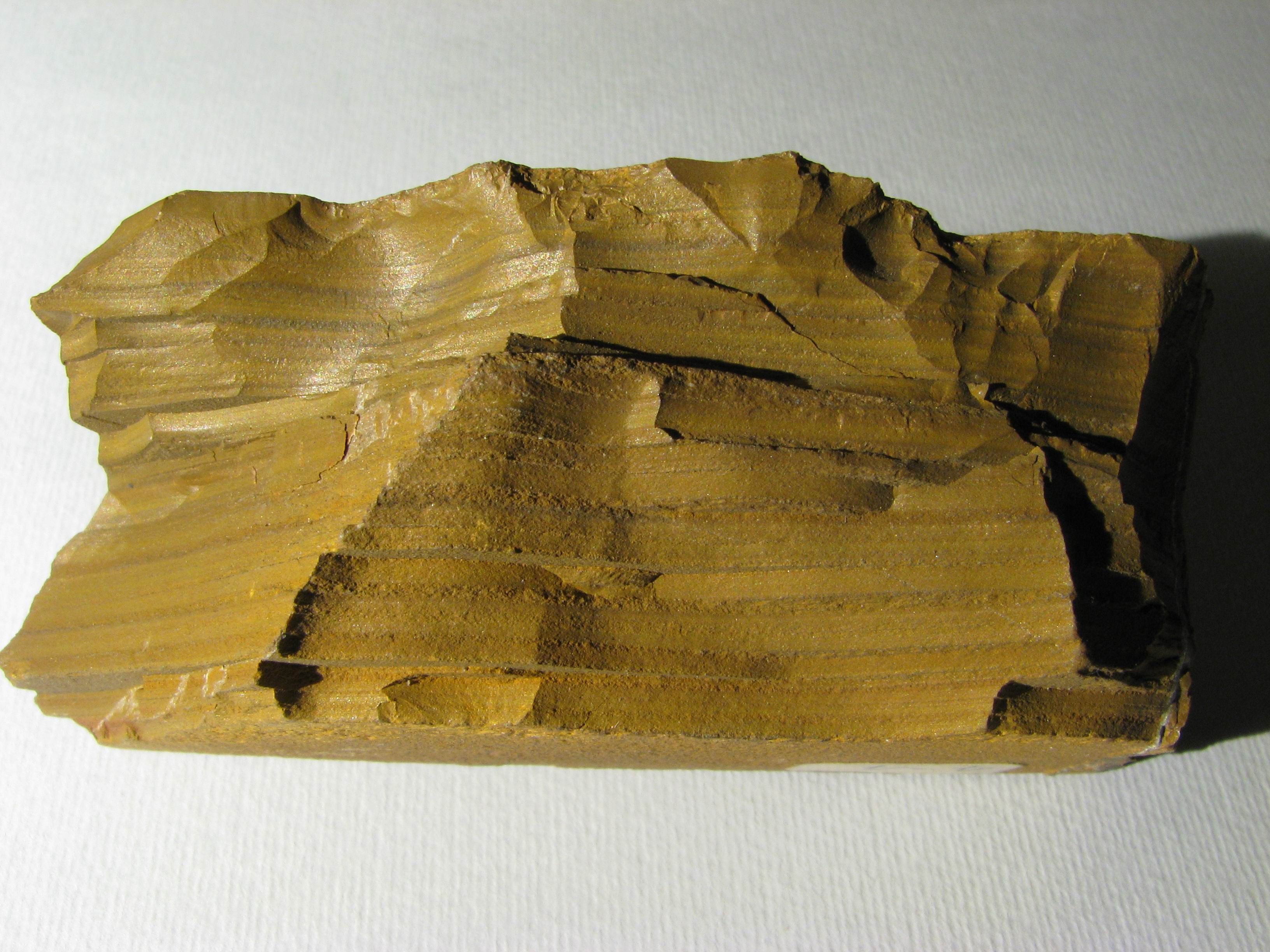 Jasper - Carloforte, Sardegna, Italy